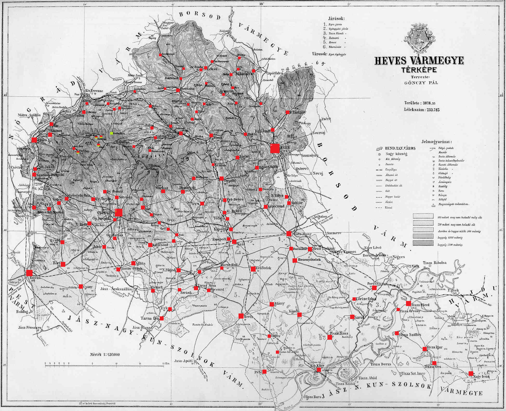 Ethnic map of the county (with data of the 1910 census). Key: red - Hungarians; light green - Slovaks; pink - Germans. Coloured dots in plain rectangles imply the presence of smaller minority populations (generally more than 100 people or 10%). The small upland settlements of the Mátra mountain were not independent villages at the time.